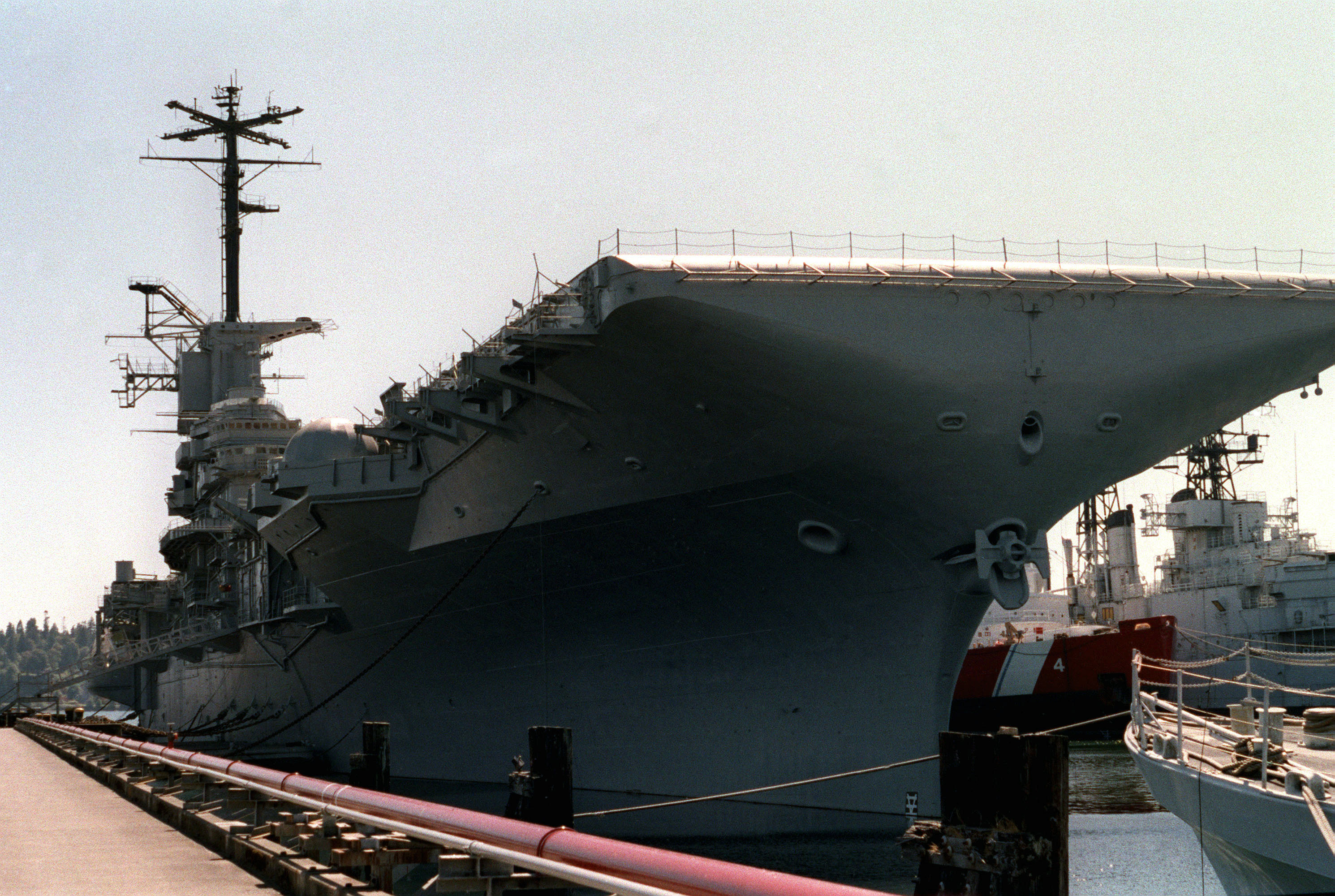 The U.S. Navy aircraft carrier USS Bennington (CVS-20) laid up at the Naval Inactive Ship Maintenance Facility, at the Puget Sound Naval Shipyard, Bremerton , Washington (USA), in 1990.